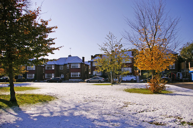 Early snowfall in London N14 Autumn colours contrasting with the blue sky and snow.